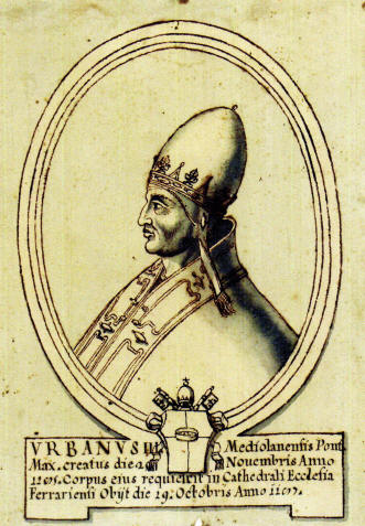 Sketch of Pope Urban III by 17th century artist